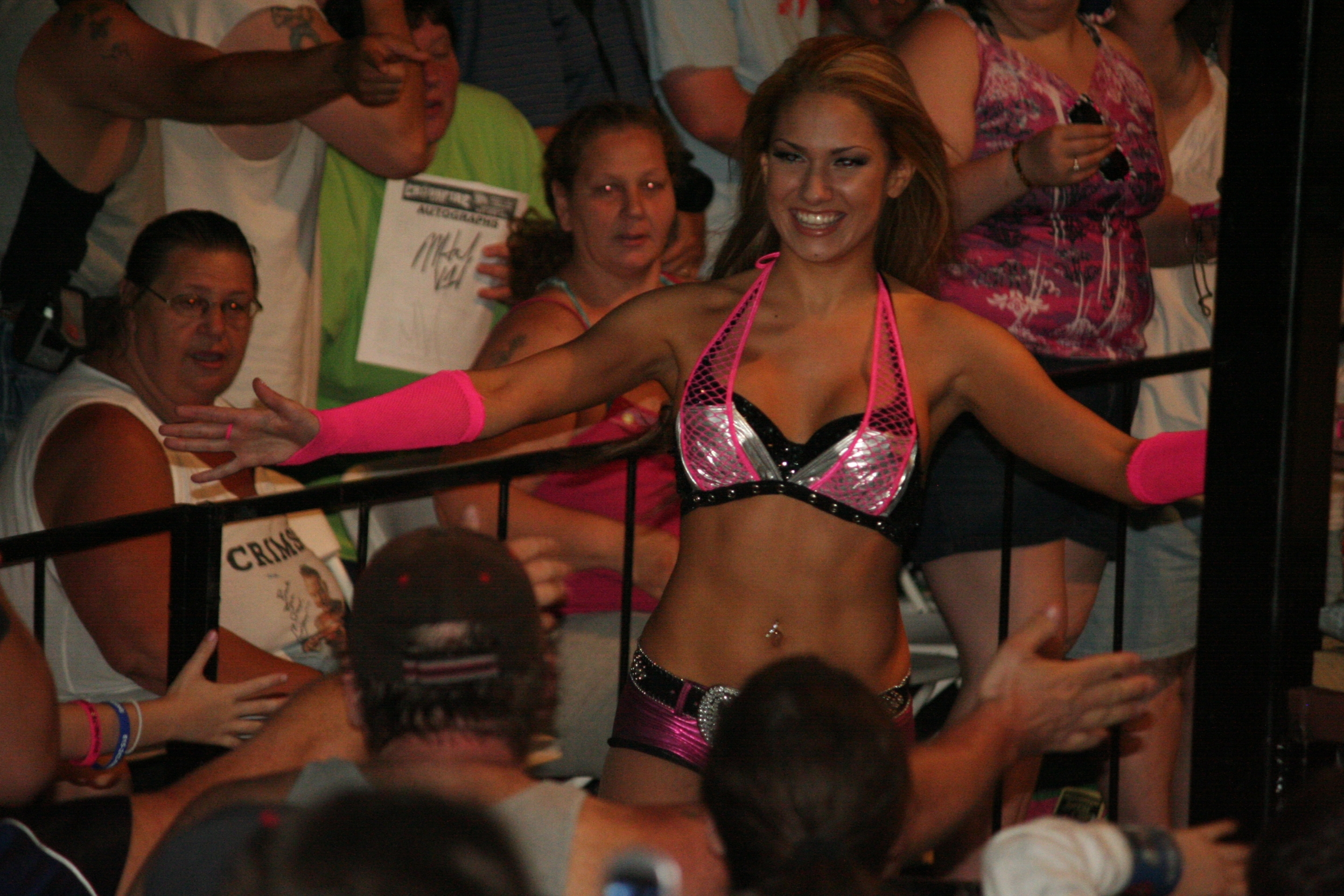 Reby Sky at a Crossfire Pro Wrestling show in Nashville, TN, in May 2012.